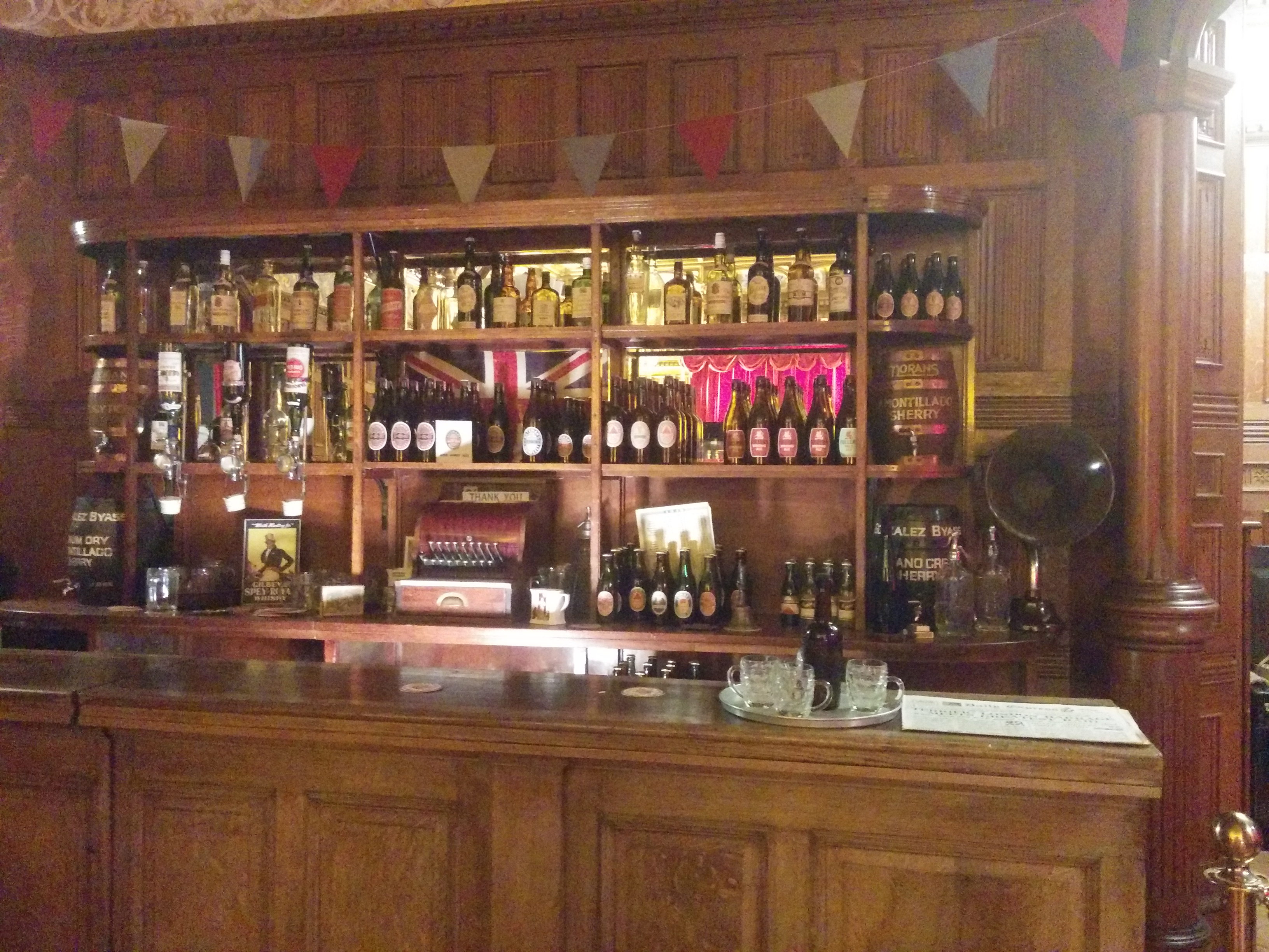 Recreation of bar from the film "The Imitation Game" in Bletchley Park